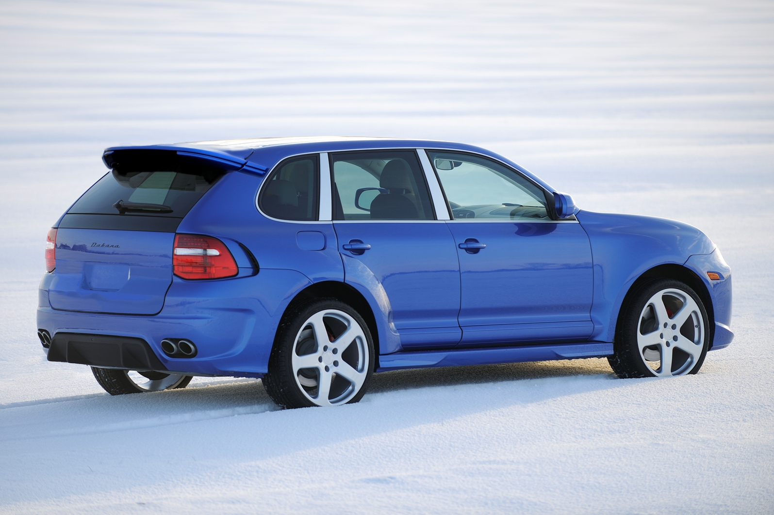 Dakara